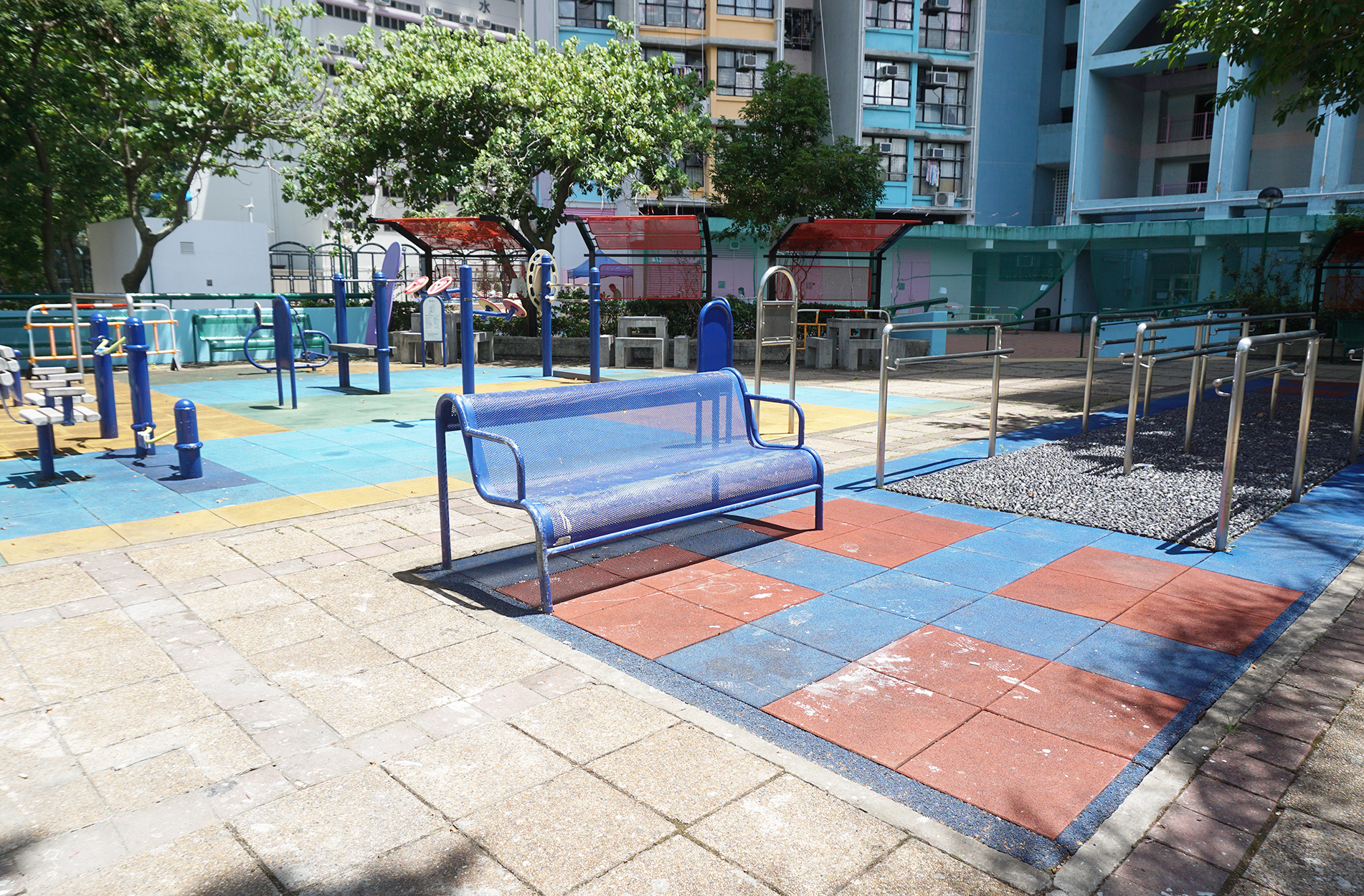 Tin Yiu Estate in Tin Shui Wai, Hong Kong.